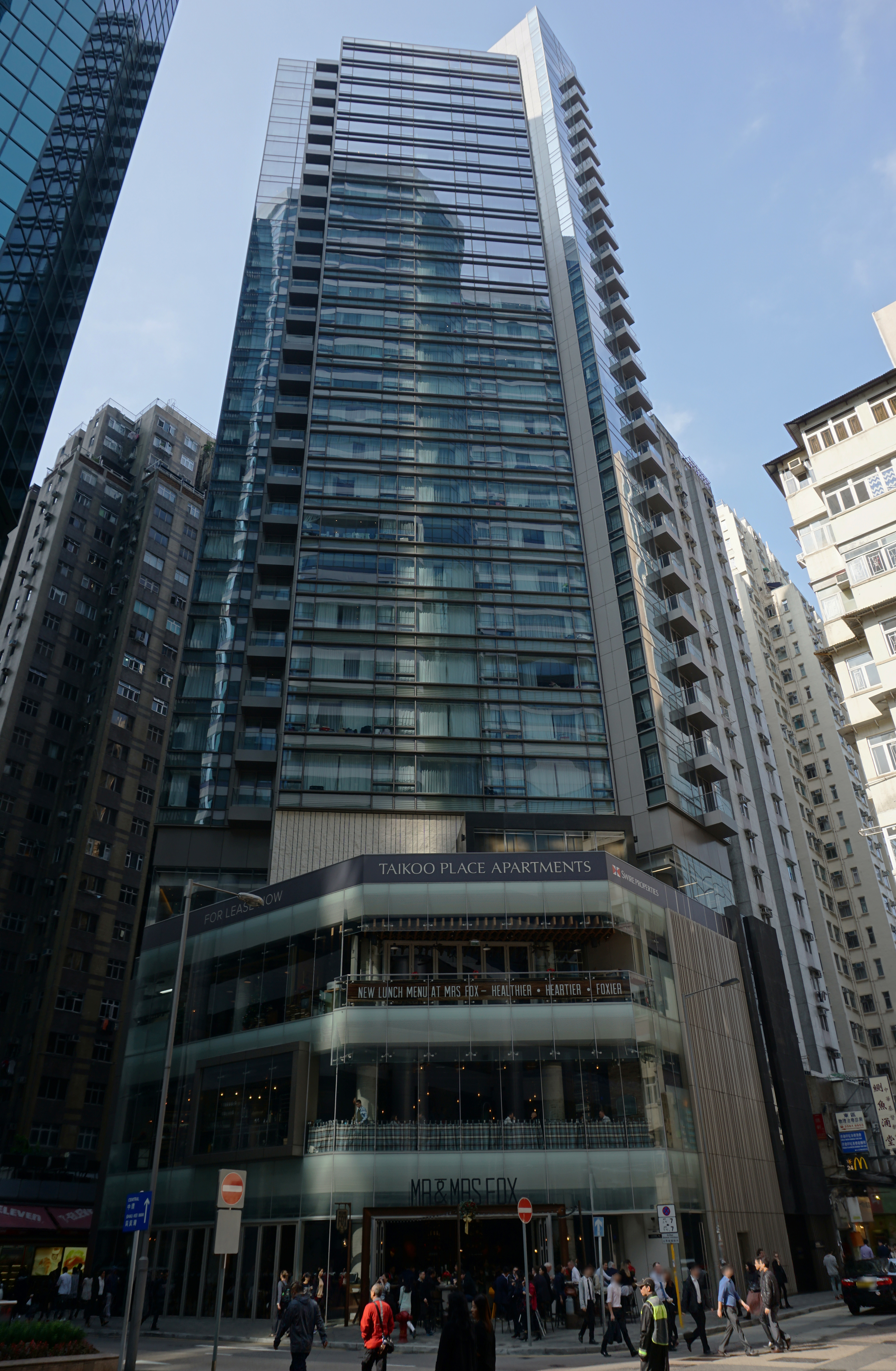 TaiKoo Place Apartments in Quarry Bay, Hong Kong.